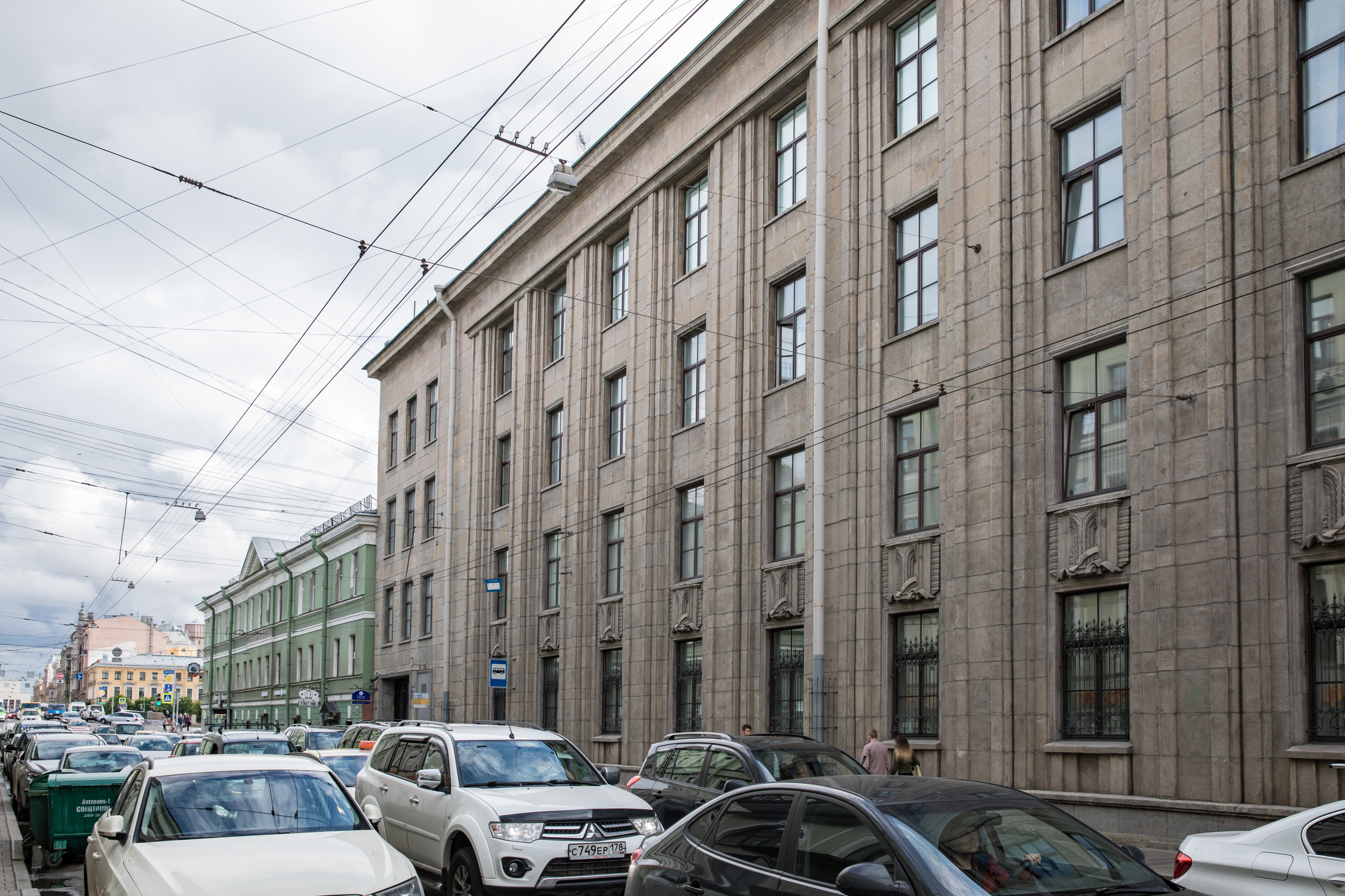 Gorokhovaya street, Saint Petersburg